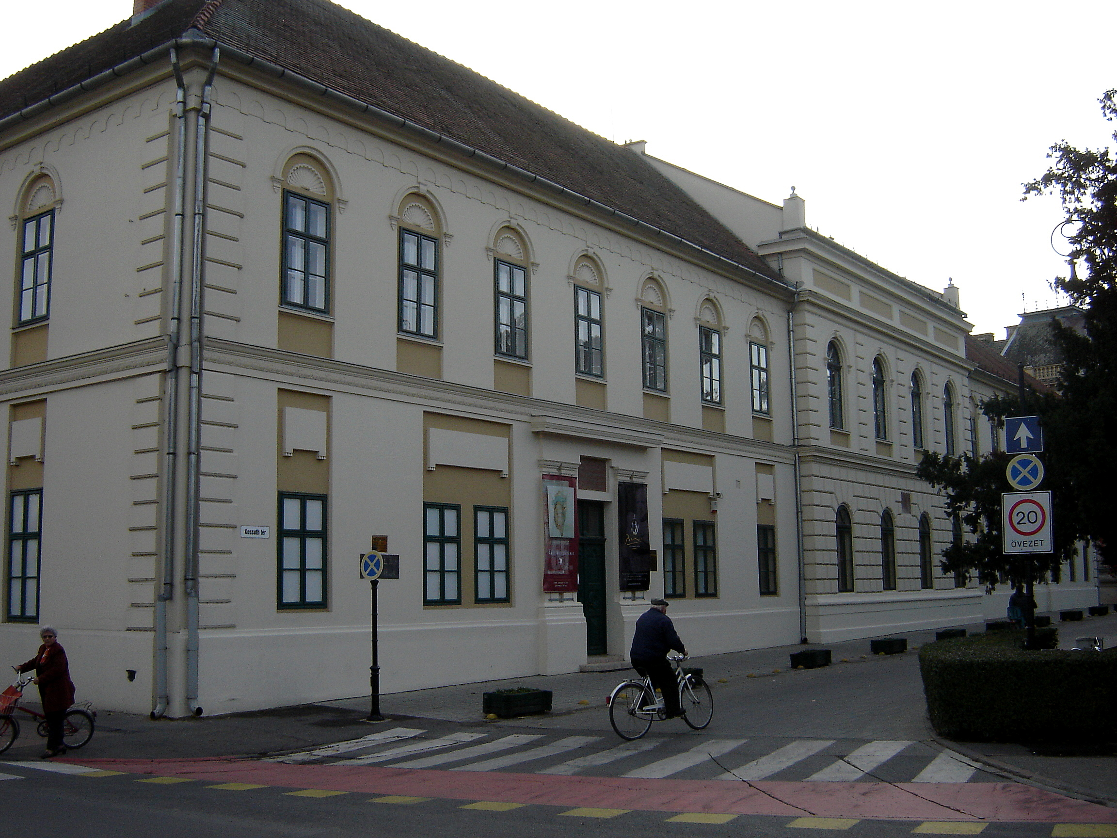 Alföldi Gallery in Hódmezővásárhely